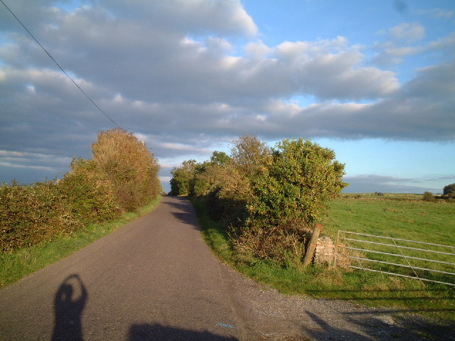 Roman Road on Bleadon Hill